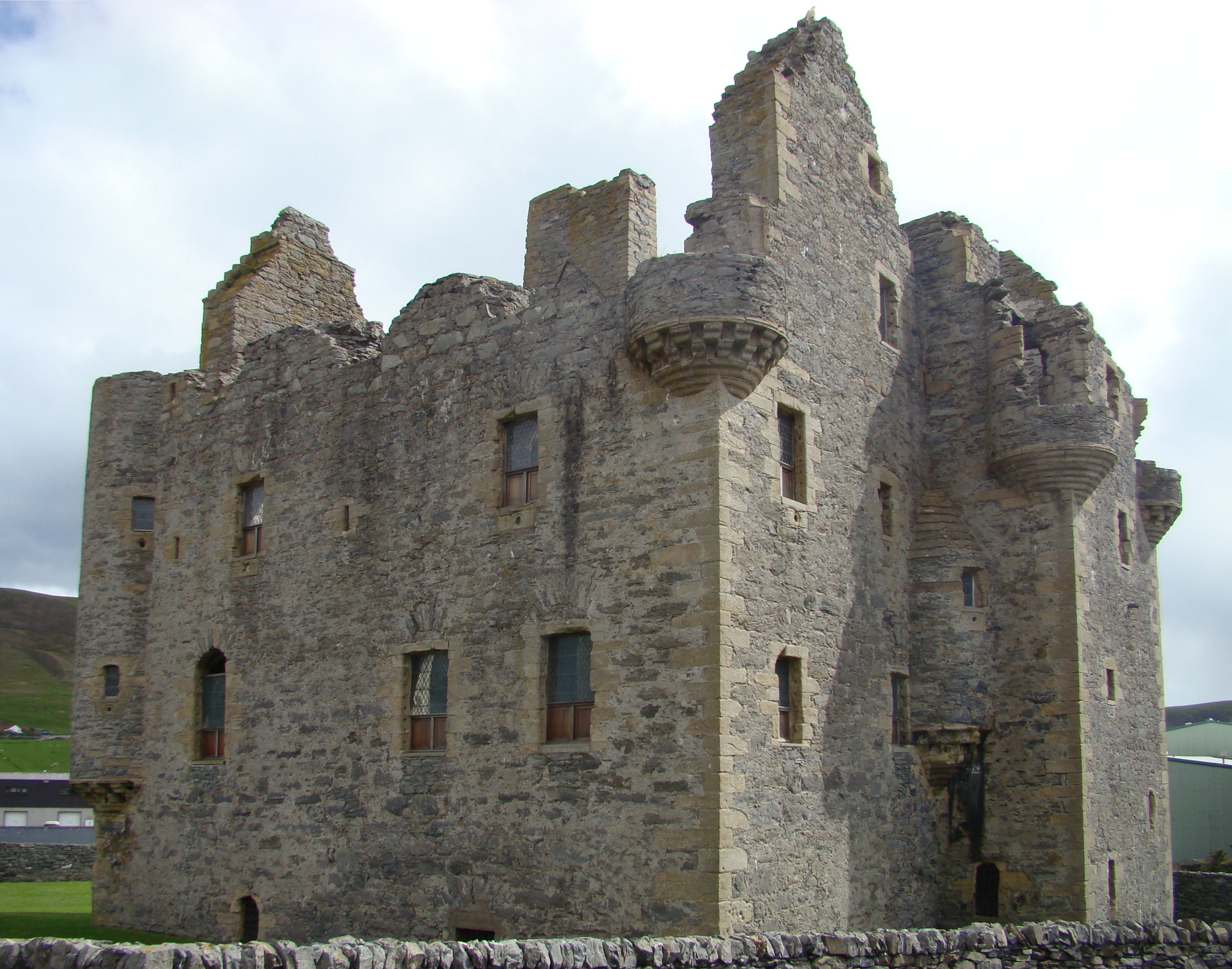 Scalloway Castle, Scalloway, Shetland Mainland, Scotland